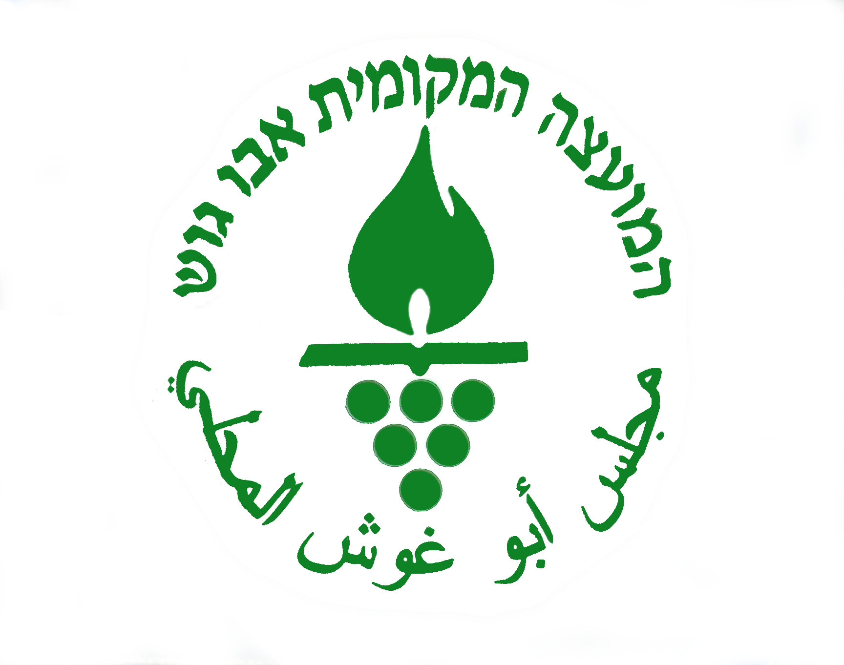 Flag of Abu Ghosh local council